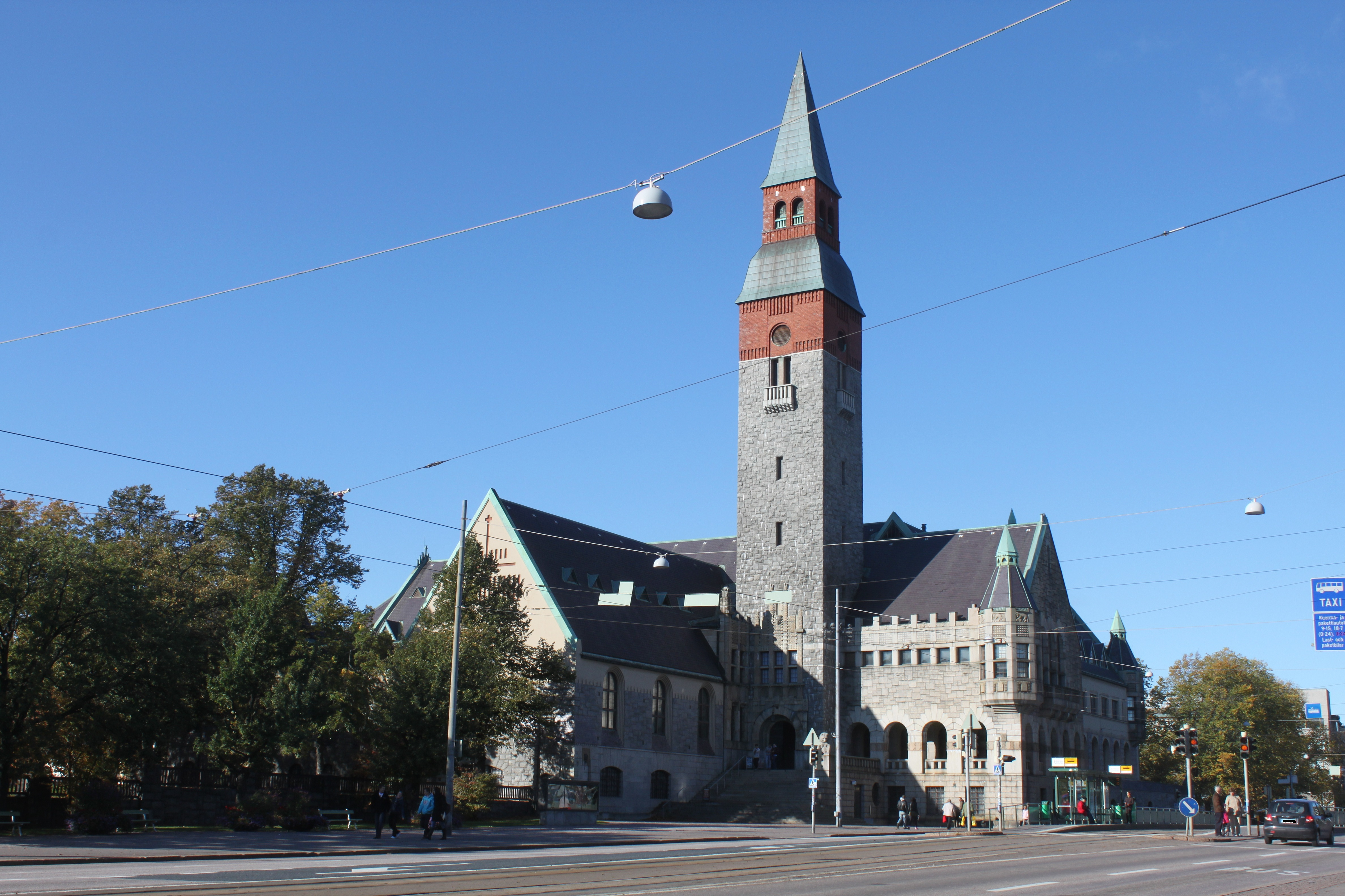 National Museum of Finland